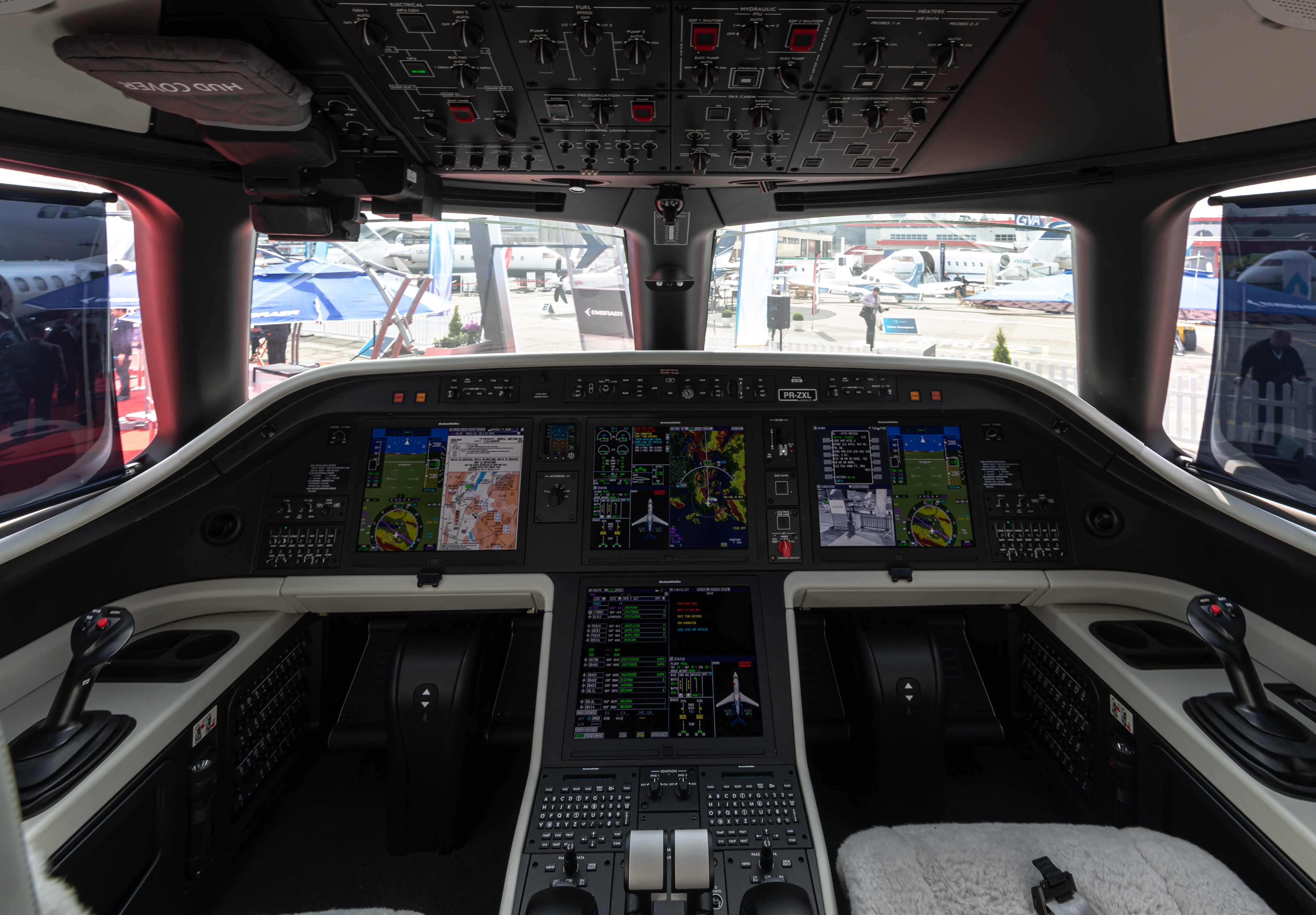 Interior of an Embraer Praetor at EBACE 2019, Palexpo, Switzerland